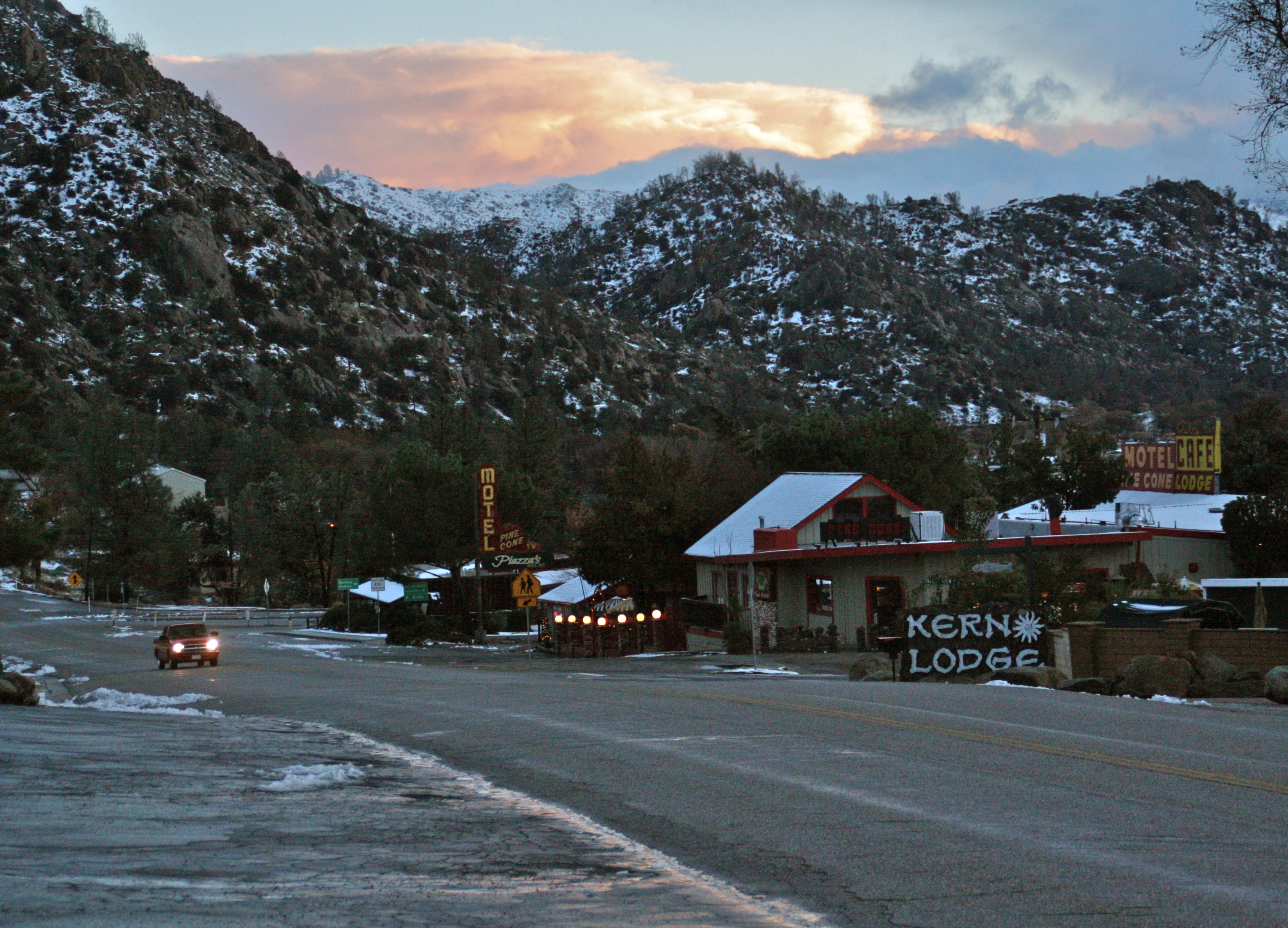 Kernville at dusk, December 2016